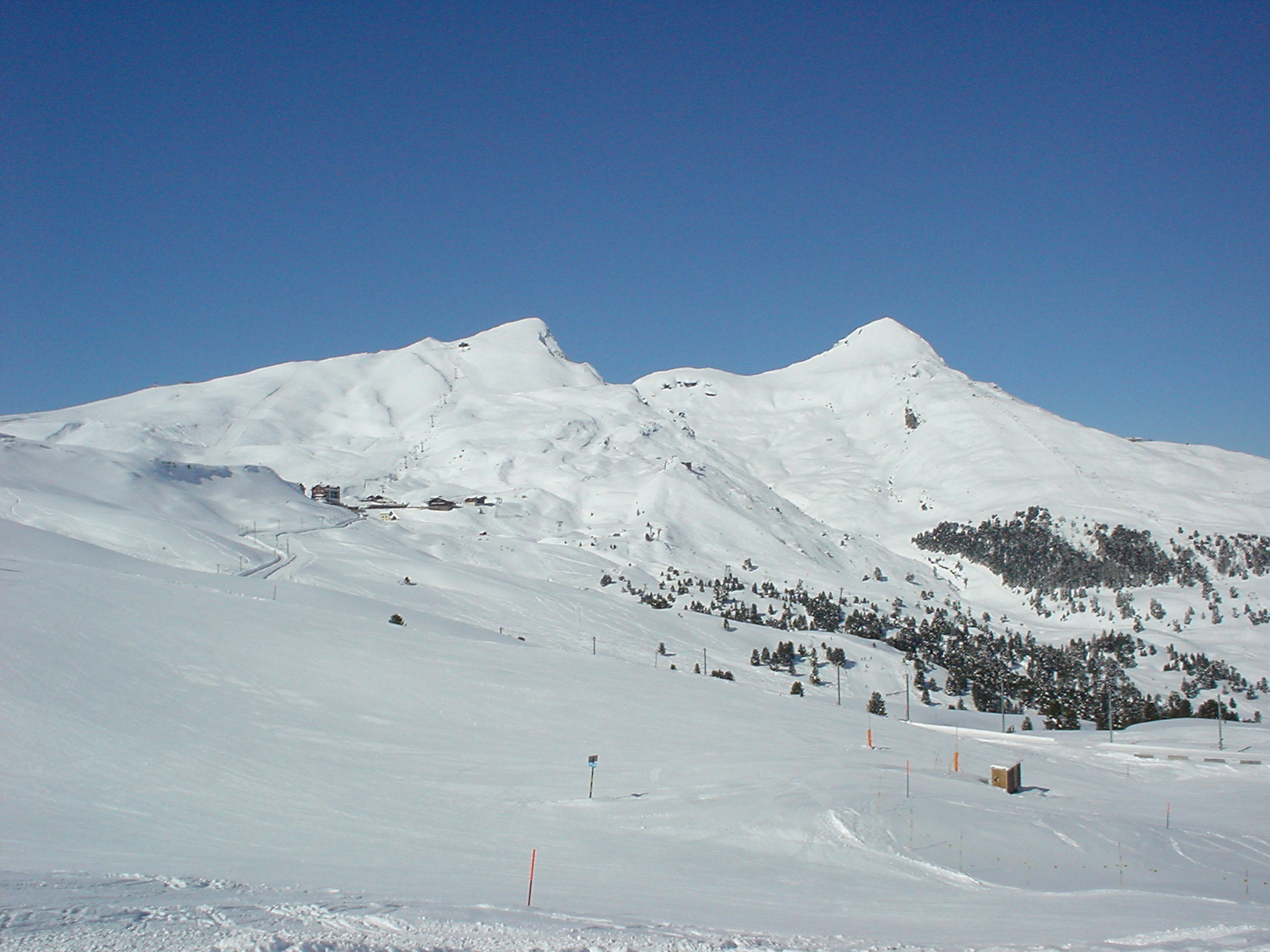 View over the Kleine Scheidegg.